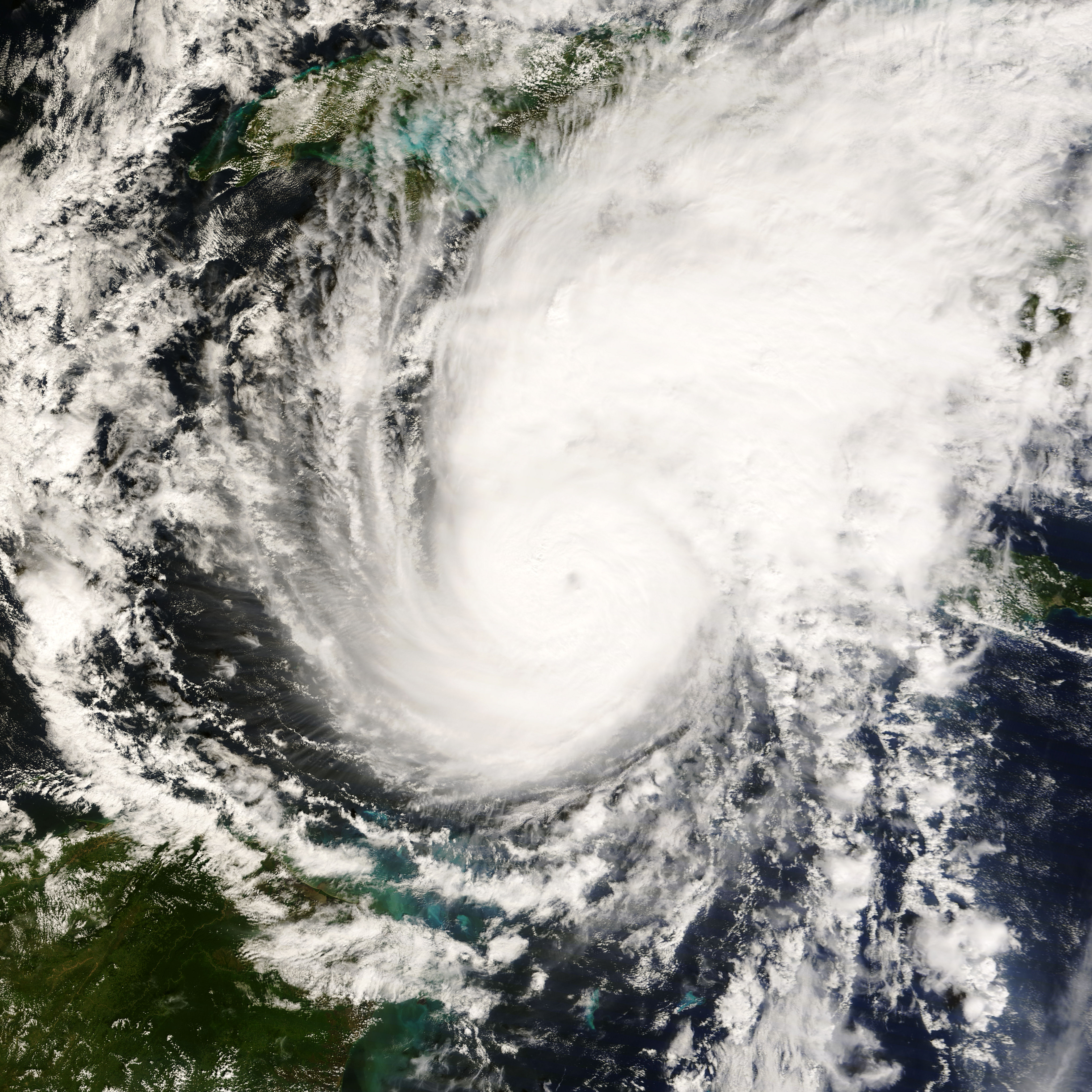 Hurricane Paloma on November 7, 2008 as seen by Terra.